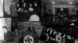 Nazi activity at the Costa Rican German Club